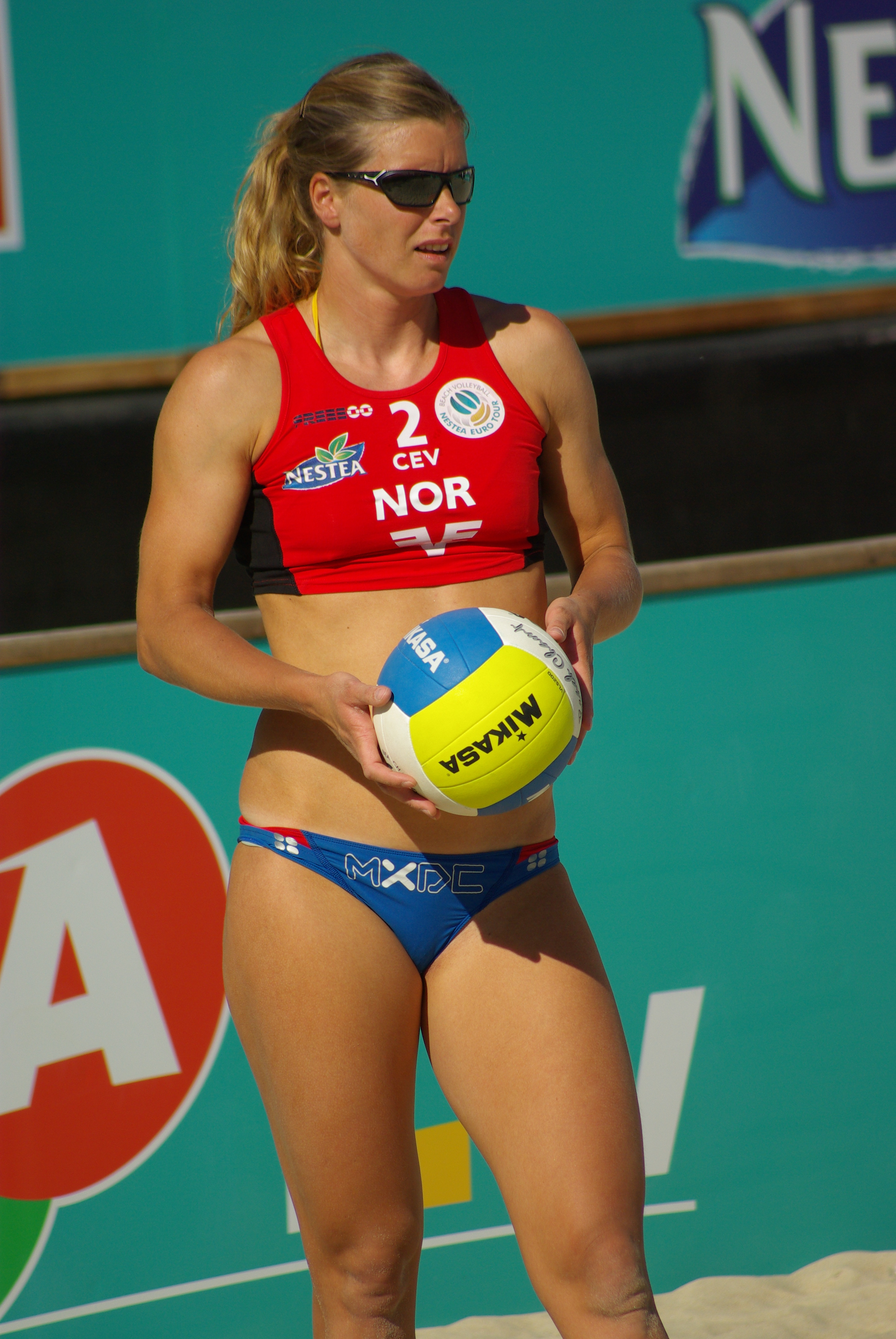 Norwegian Beach volleyball player Susanne Glesnes at the European Championship Tour 2008 Austrian Masters in St. Pölten.